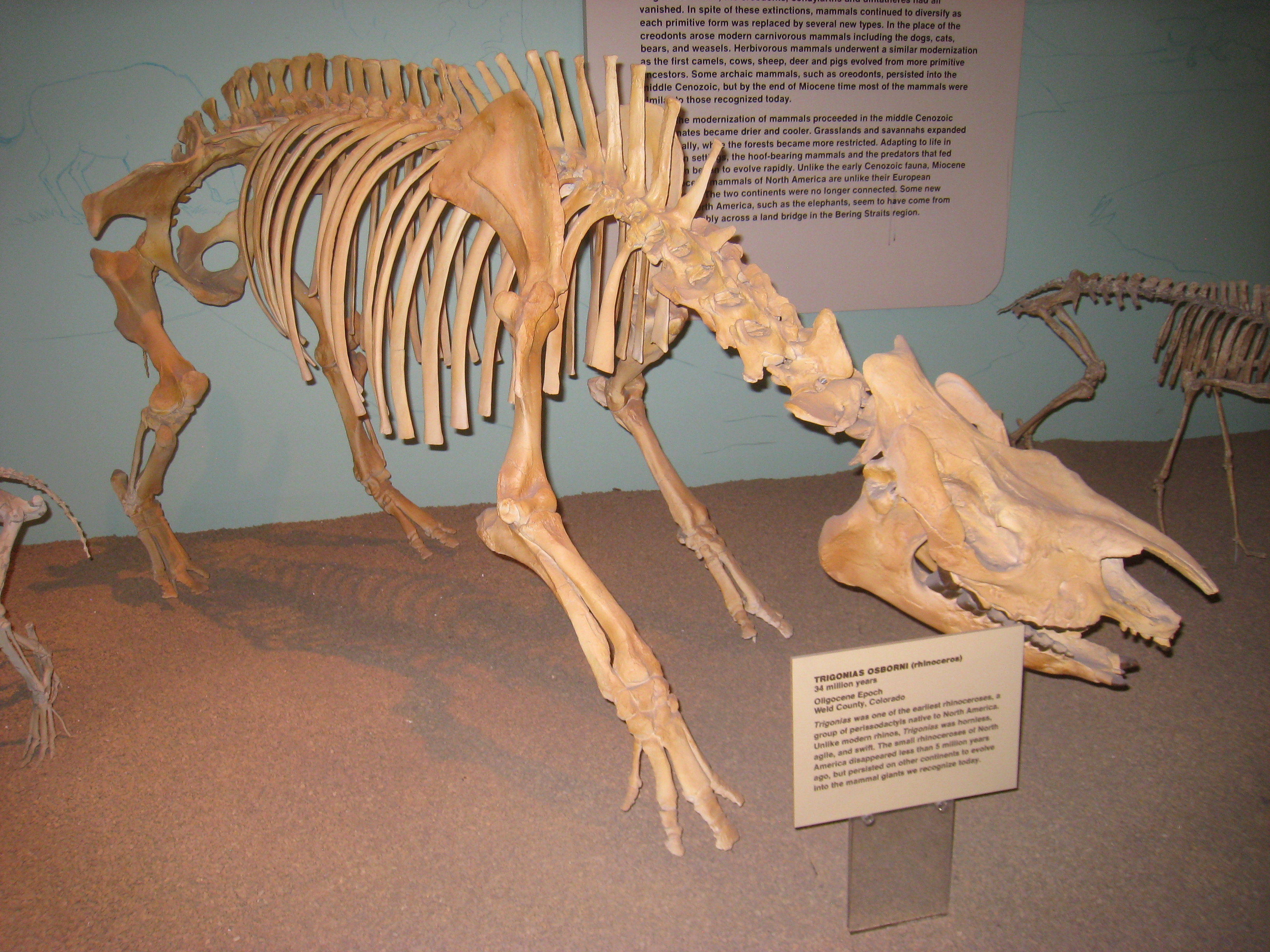 Trigonias osborni fossil in the Utah Museum of Natural History, Salt Lake City, Utah, USA.